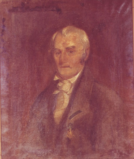 Capt. William Lytle (1728-1797), Founder of Cincinnati, OH